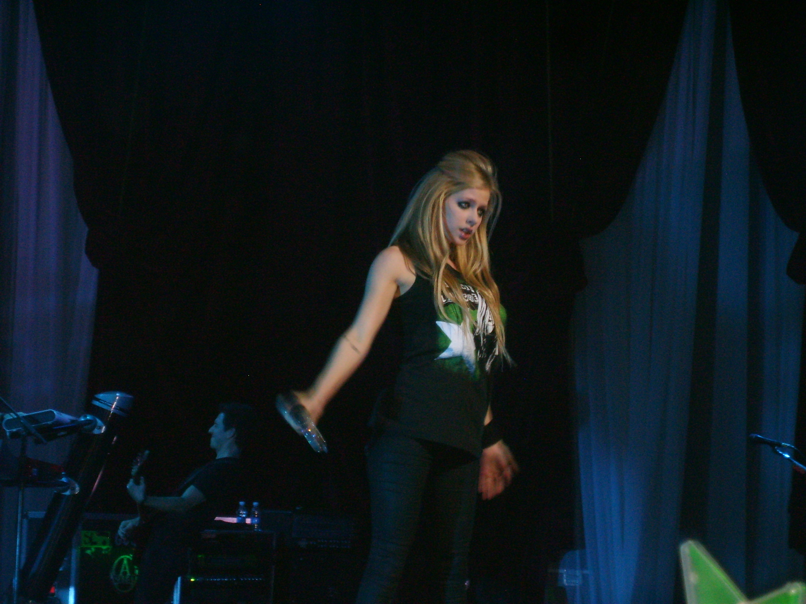 Avril in São Paulo, Brazil. The Black Star Tour in July 27 2011.